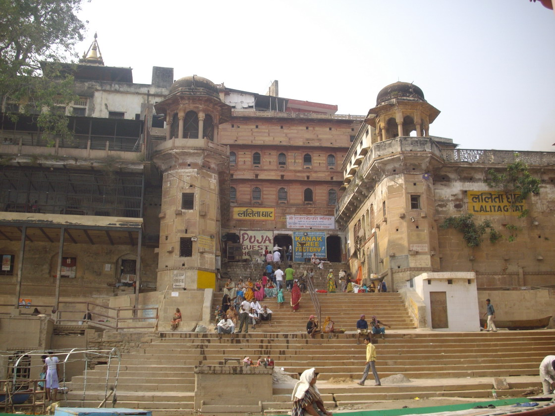 A view of Lalita Ghat from a boat on Ganges river in Varanasi.